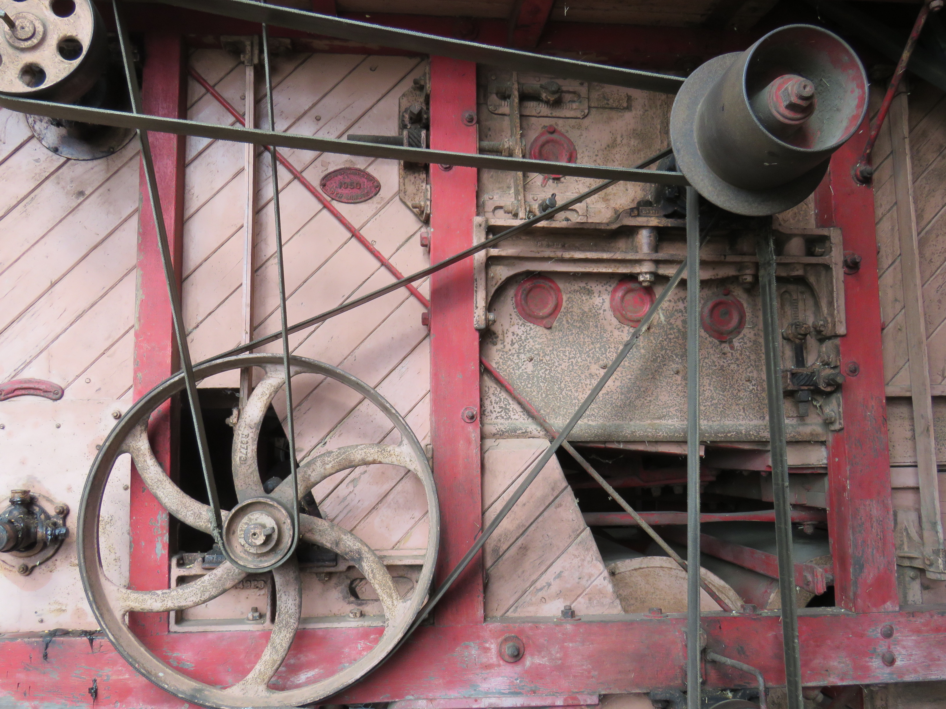 threshing machine, Museum of East Anglian Life, Stowmarket, Suffolk